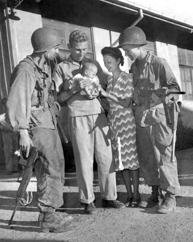 Hal Bowie and his wife and baby daughter, Lea, with two paratroopers from the 11th Airborne Division. Photo taken shortly after the Los Baños Raid. 23 February 1945.